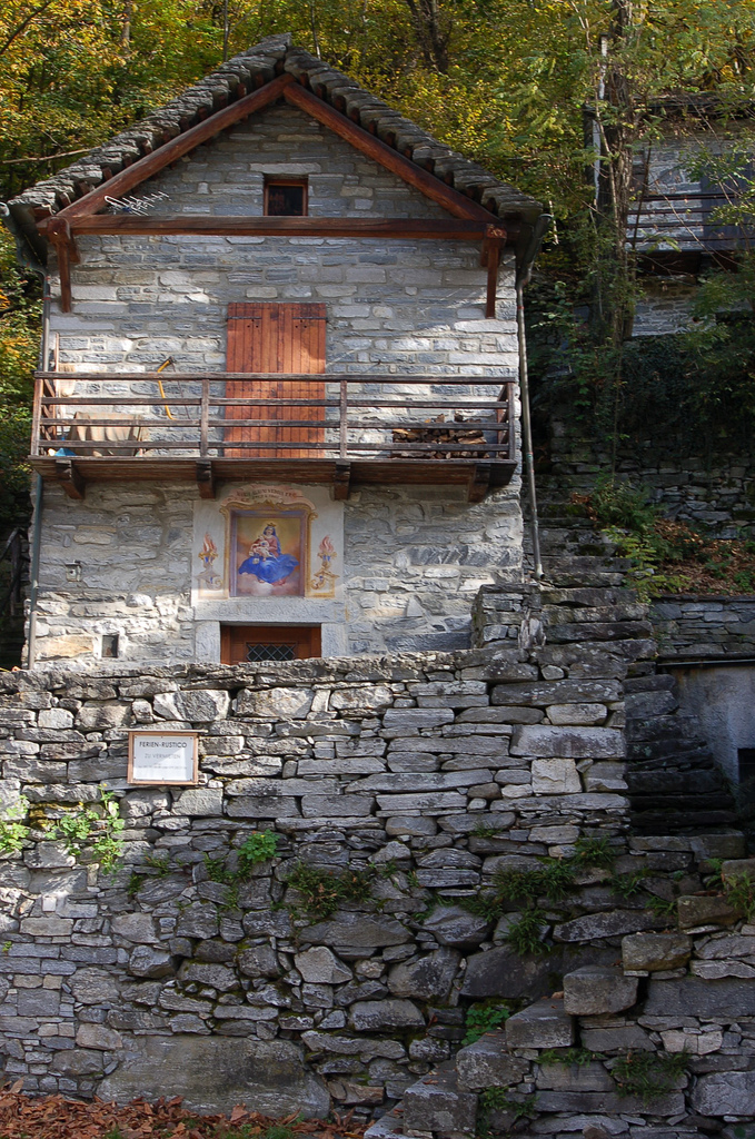 An old town with a delicious restuarant